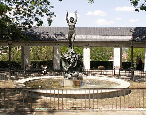 Monument to Ramón Gómez de la Serna (1888–1963) at Jardines de Las Vistillas (a park) in Madrid (Spain). It's a work by Enrique Pérez Comendador inaugurated in 1972.